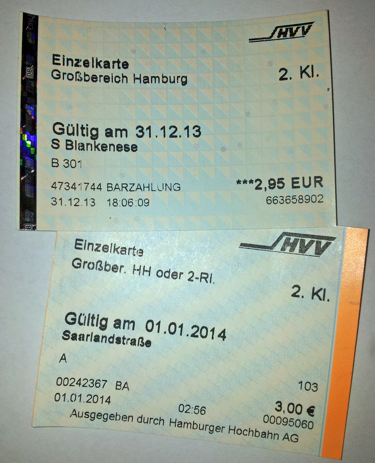 Two single trip tickets valid for Hamburger Verkehrsverbund (Hamburg metropolitan transit system). The upper one valid on Dec 31, 2013 (before fare adjustment) and issued in Blankenese (S-Bahn) by Deutsche Bahn. The one below valid on Jan 01st, 2014 (after fare adjustment) and issued at Saarlandstr. (U-Bahn) by Hamburger Hochbahn (urban subway operator). Valid for immedia use, no return; no need to use a ticket marker.